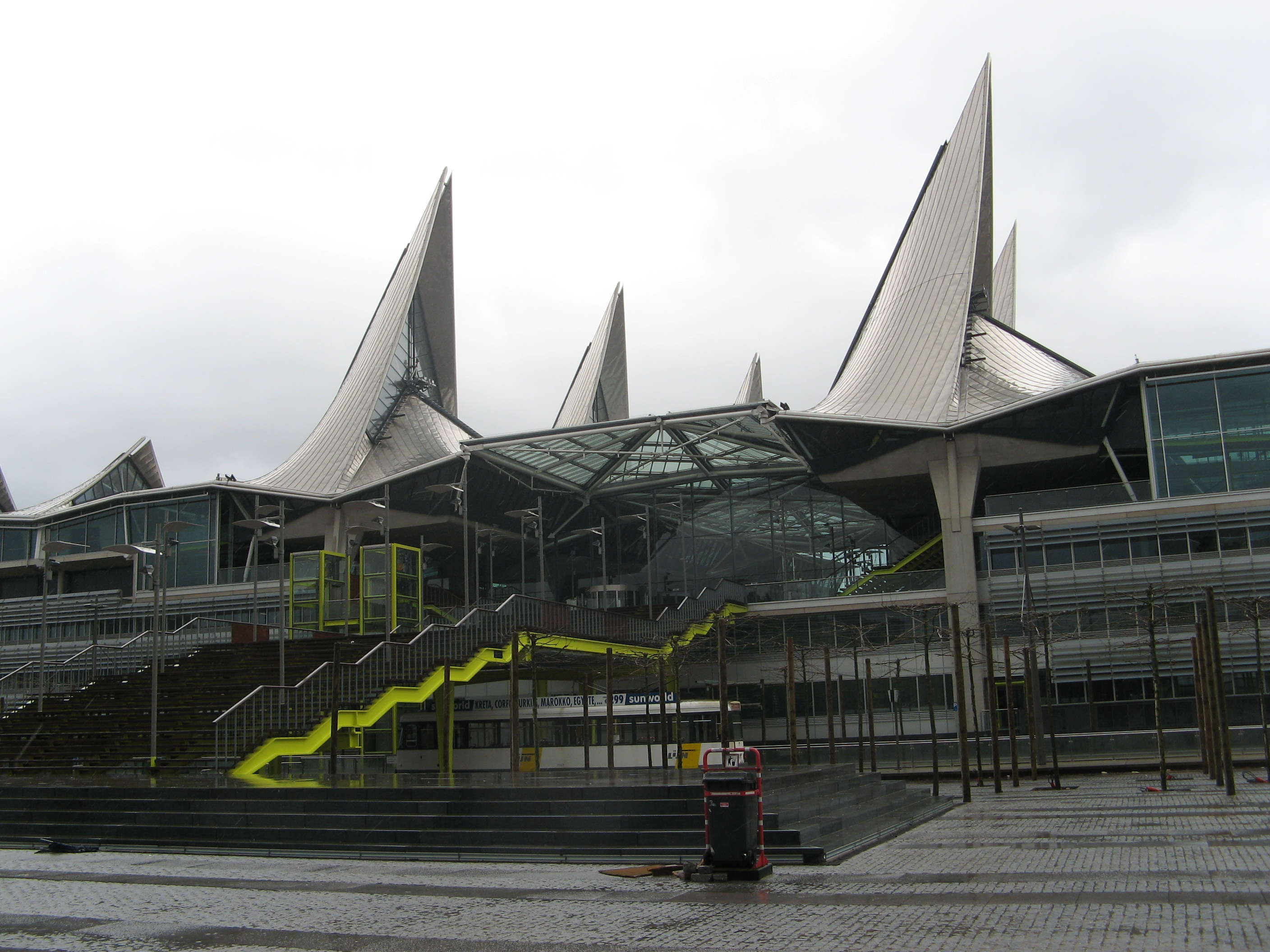 Antwerp lawcourts, Belgium